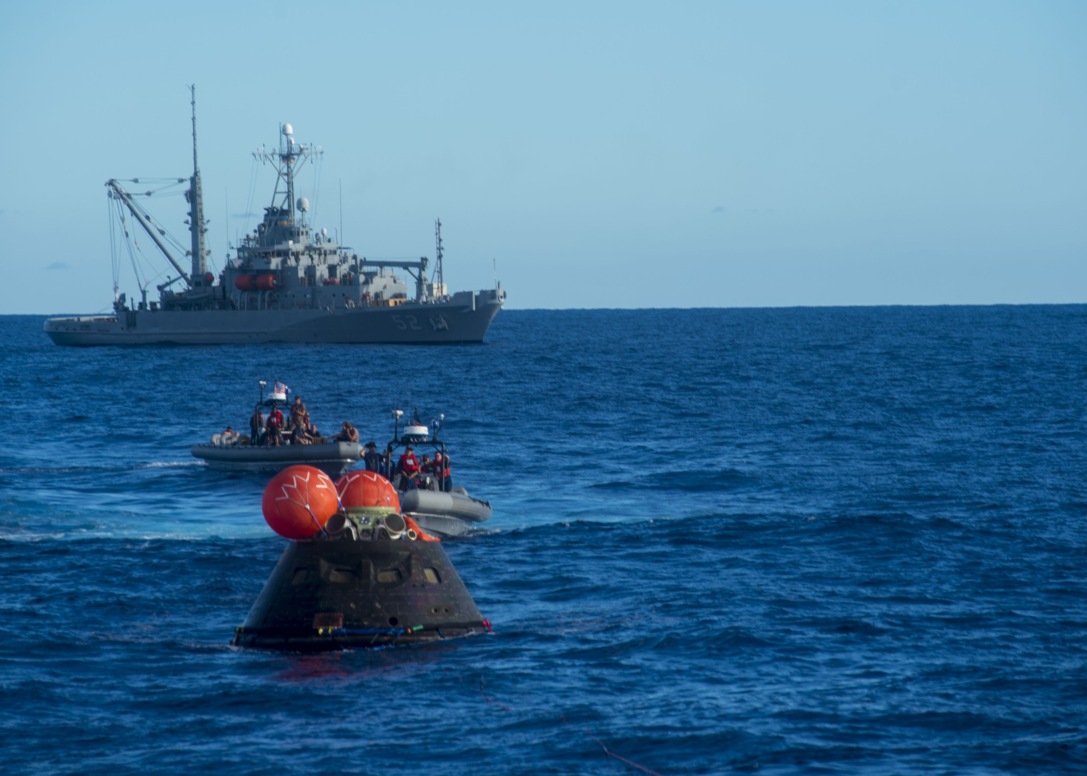 PACIFIC OCEAN (Dec. 5, 2014) Rigid hull inflatable boats (RHIB) guide NASA’s Orion crew module towards the welldeck of the San Antonio class amphibious transport dock USS Anchorage (LPD 23). Anchorage is currently conducting the first Exploration Flight Test (EFT-1) for the NASA Orion program. EFT-1 is the fifth at-sea testing for the Orion crew module using a Navy welldeck recovery method.